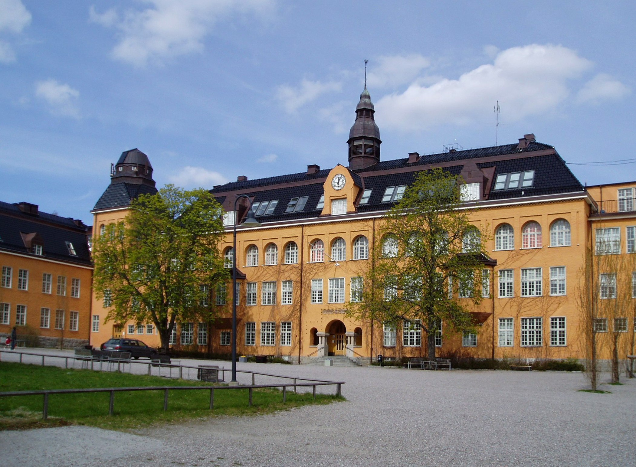 The school in Djursholm, Sweden